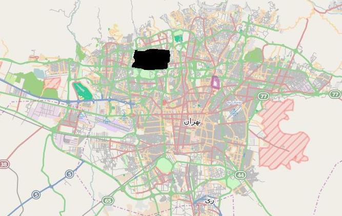 Shahrak-e Gharb in Tehran map (black)